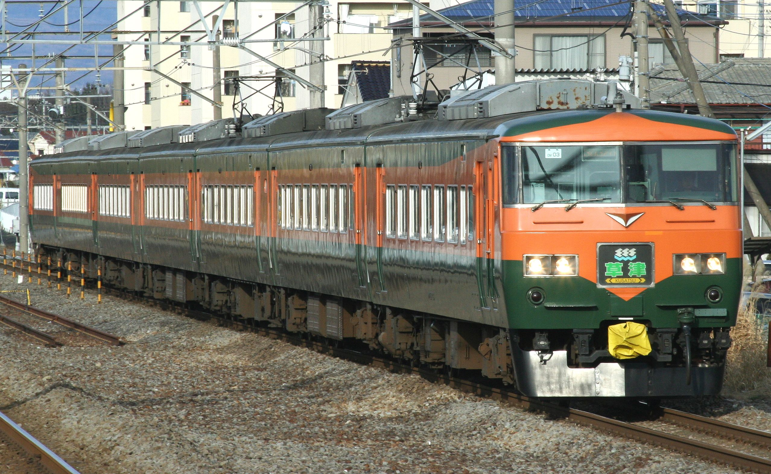 JR East 185-200 series EMU set OM03 in "Shonan" livery on a Kusatsu service at Ino Station